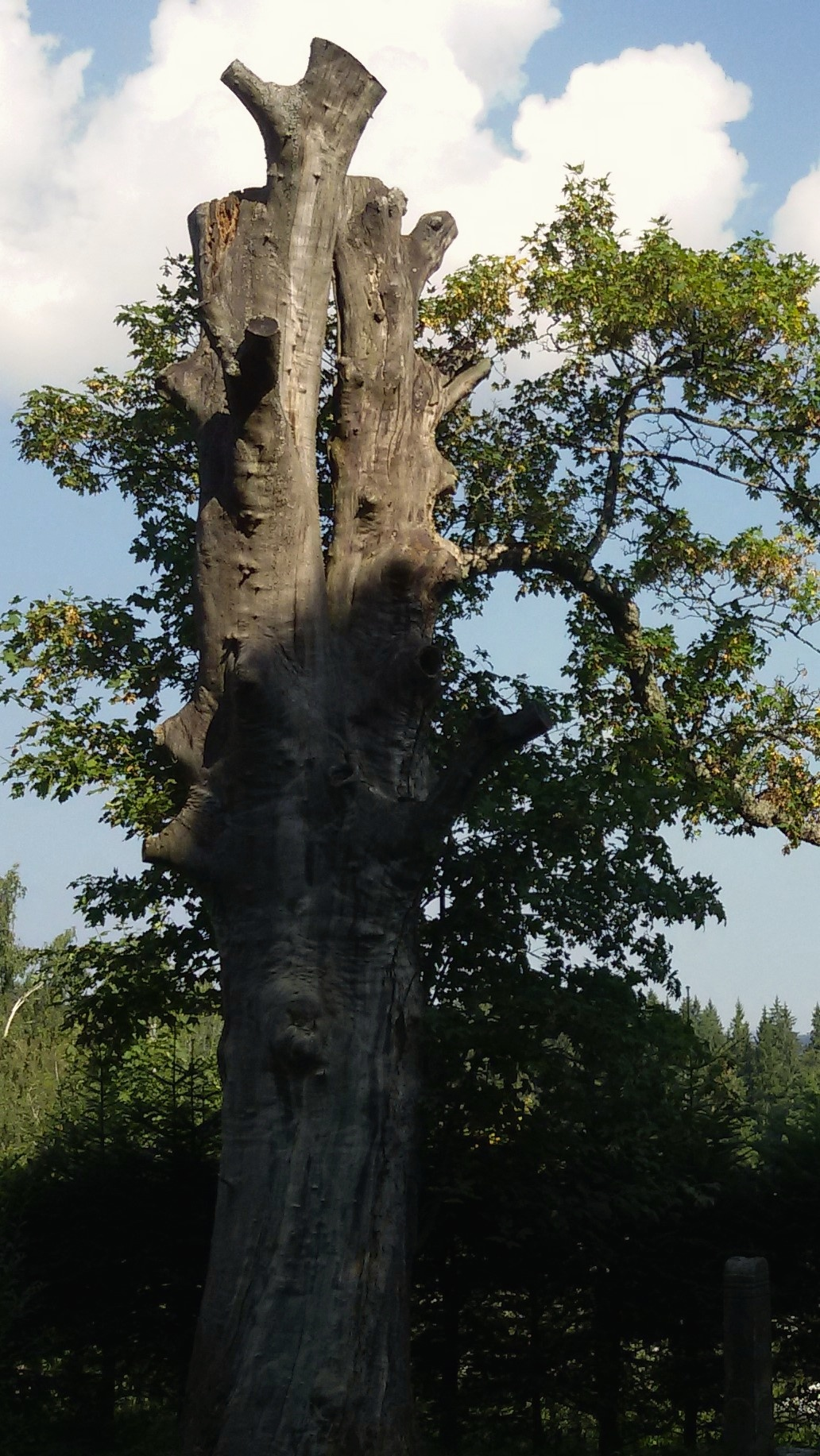 Famous maple tree (Acer pseudoplatanus L.) in Svatá Magdaléna, Volary, Prachatice District, South Bohemian Region, Czechia.